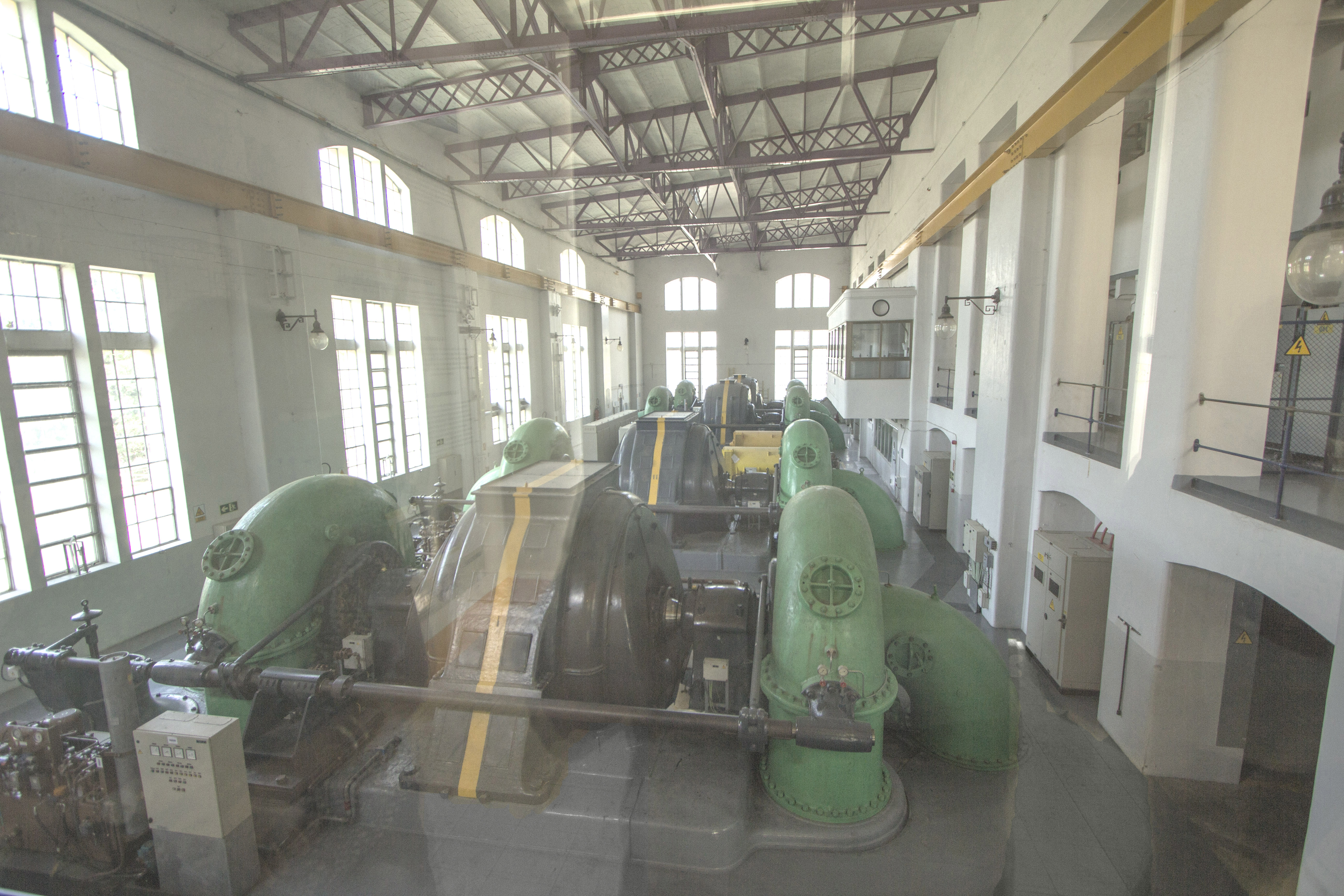 Talarn hydroelectric plant power house interior (Catalan Pyrenees)